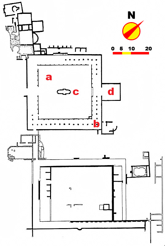 Pliny's Villa at Laurentinum